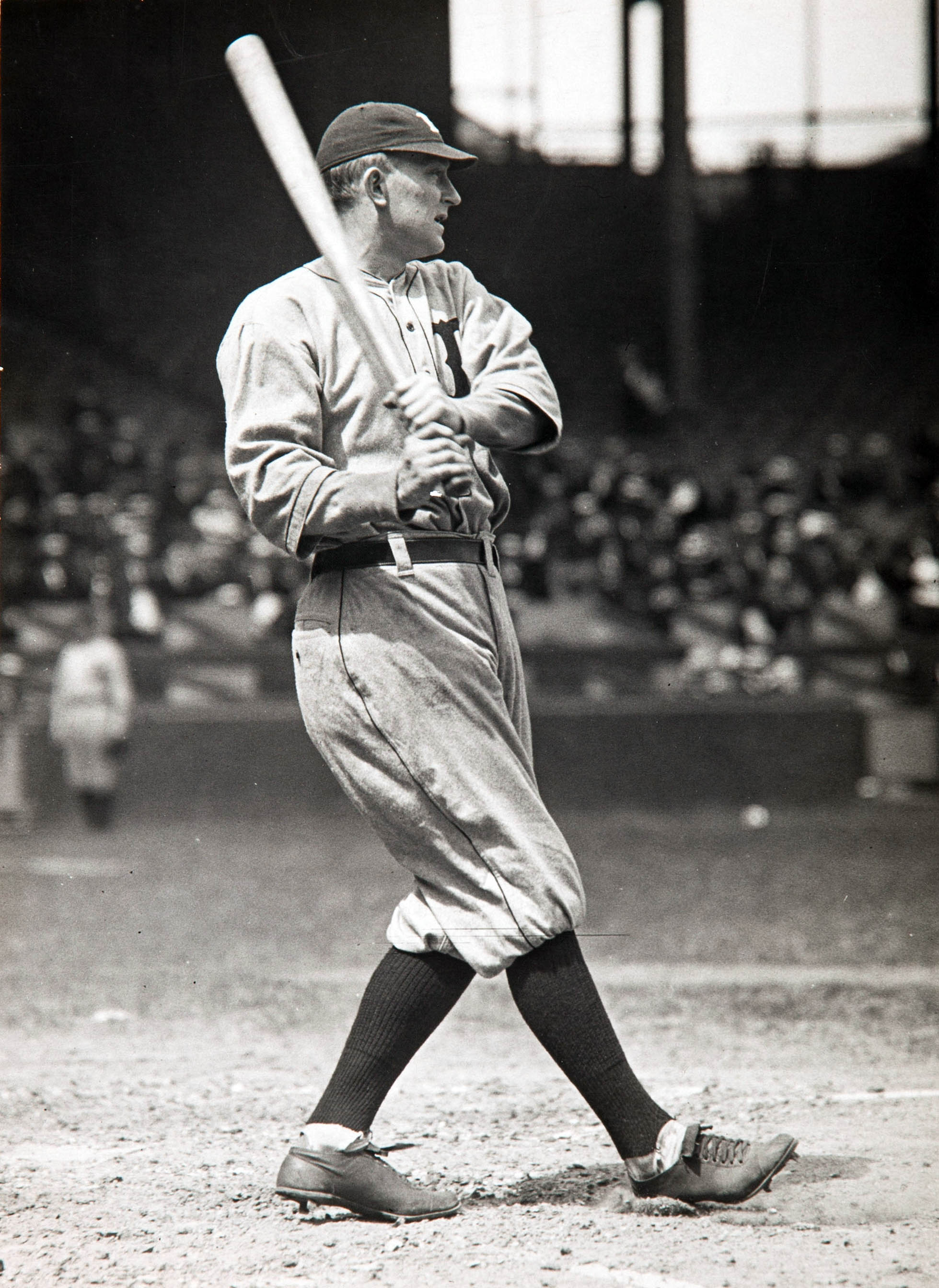 Ty Cobb